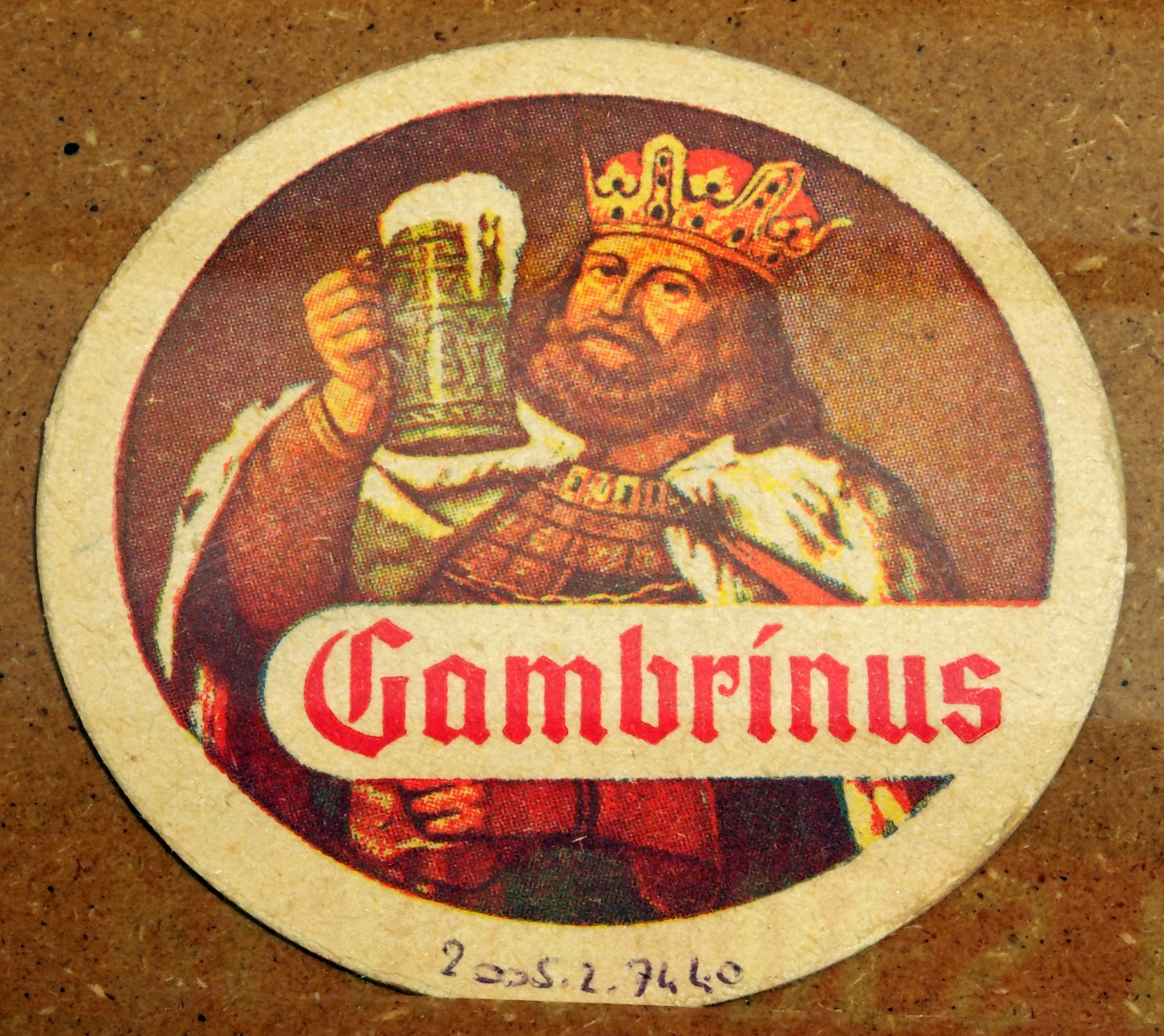 Gambrinus. (Photographed through glass.)